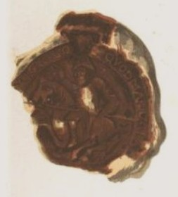 Hugh, Count of Champagne